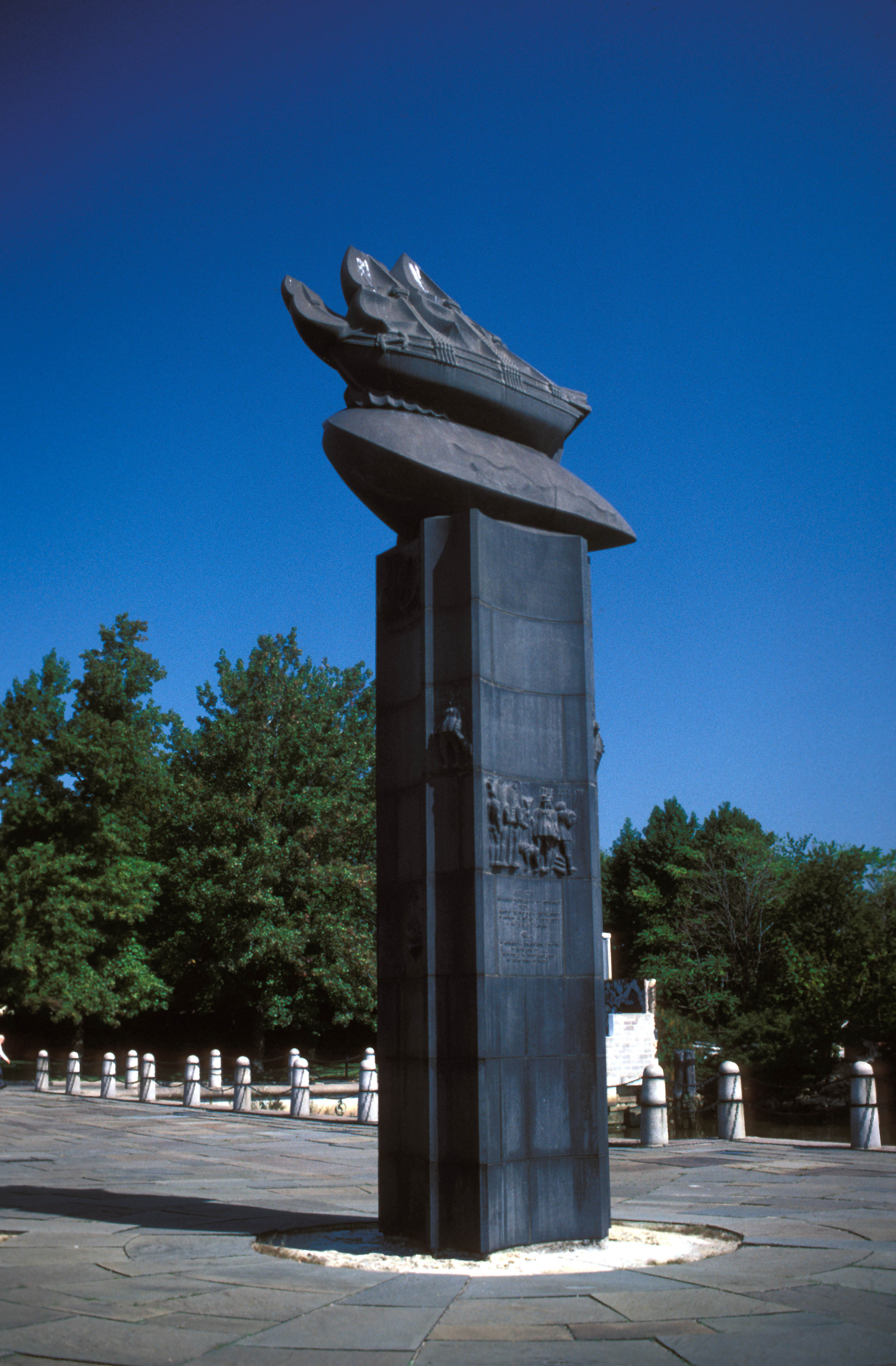 Monument erected at the site of the first landing on the banks of the Christina River designed by Swedish sculptor Carl Milles